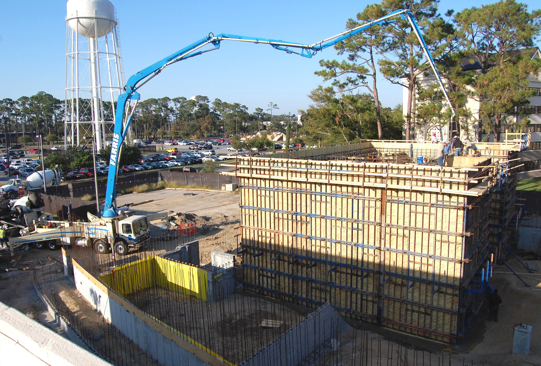 Construction workers pour concrete for the linear accelerator vault walls at Keesler Medical Center’s new diagnostic imaging center. A convoy of cement trucks made dozens of trips throughout the day to pour about 698 cubic yards of concrete using two large pumping booms.